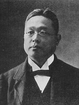 Isaburo Yamagata